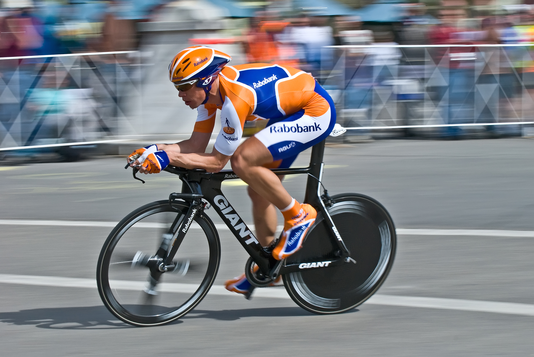 Pedro Horrillo, Tour of California 2009. Seen on course in Los Olivos , the stage 6 time trials.